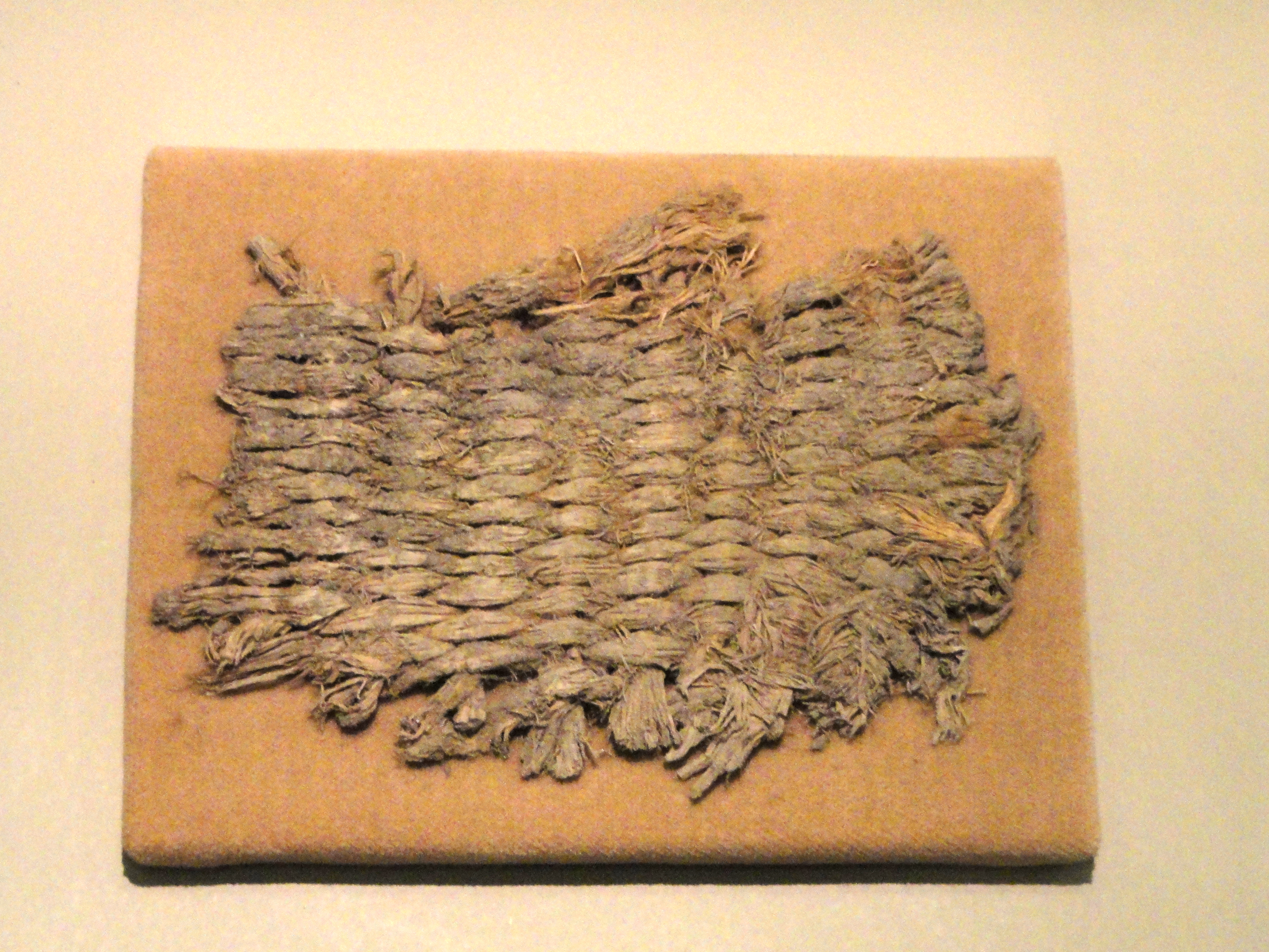 Exhibit in the South American collection of the American Museum of Natural History, Manhattan, New York City, New York, USA.